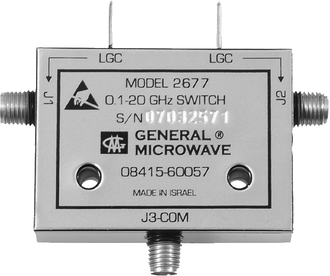 A wide frequency, microwave (0.1 to 20 GHz), high-performance, reflective, SPDT switch.